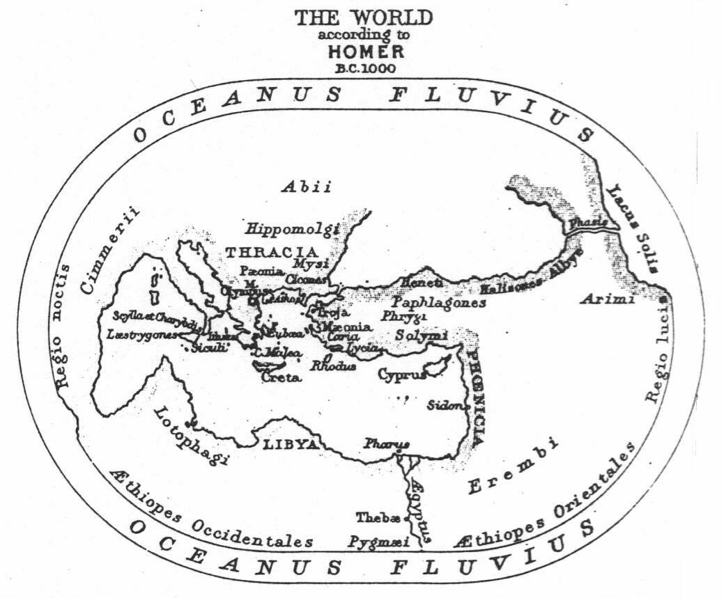 Homer's conception of the world during the Heroic era. From The Challenger Reports (summary), 1895